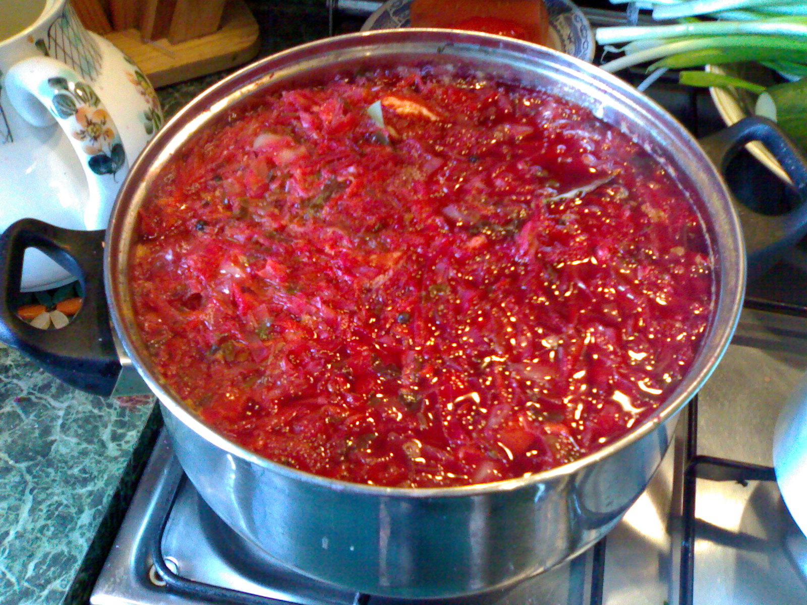 Borsch - traditional russian and ukranian soup.